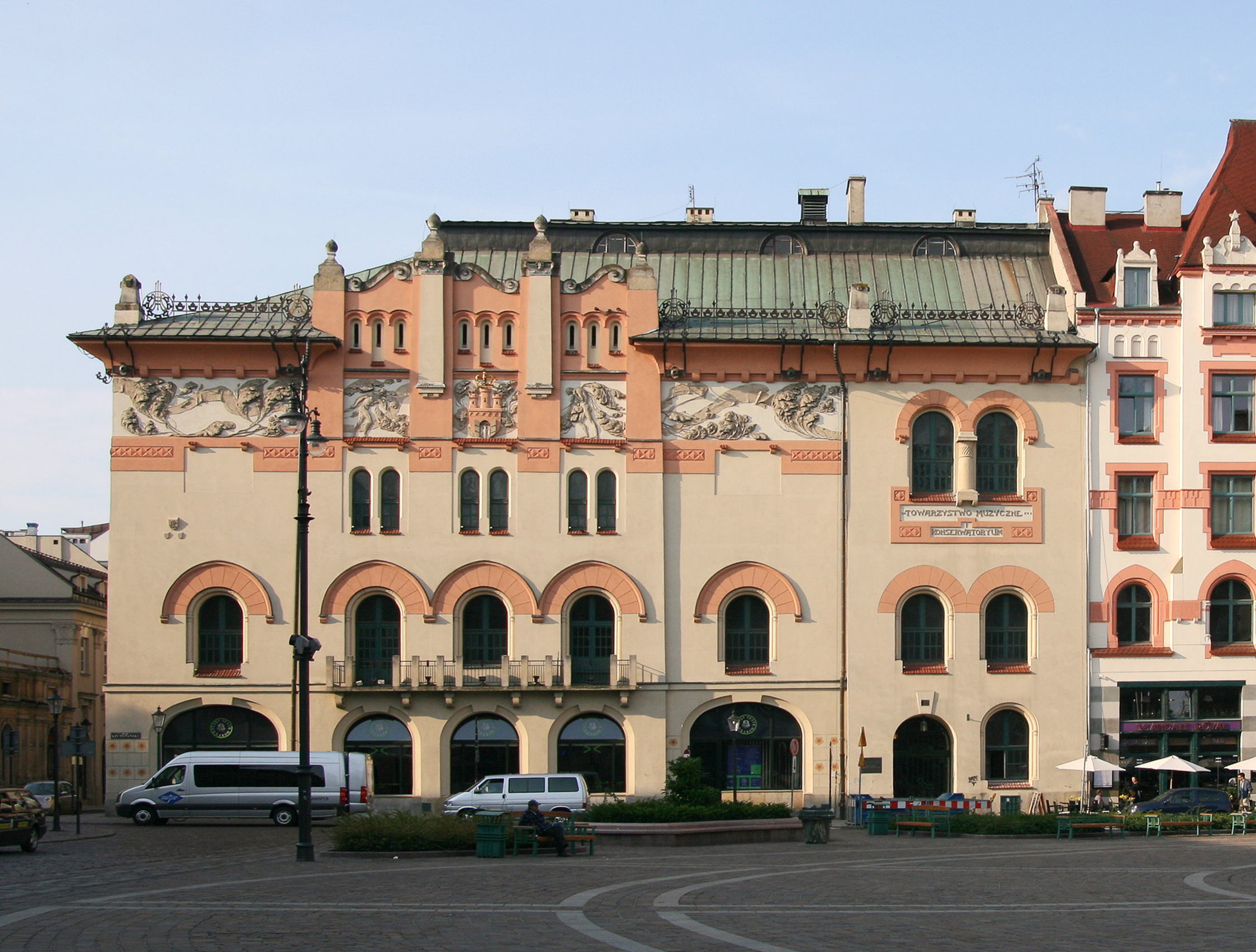 Old Theatre, Szczepański Square / Jagiellońska Street, Krakow